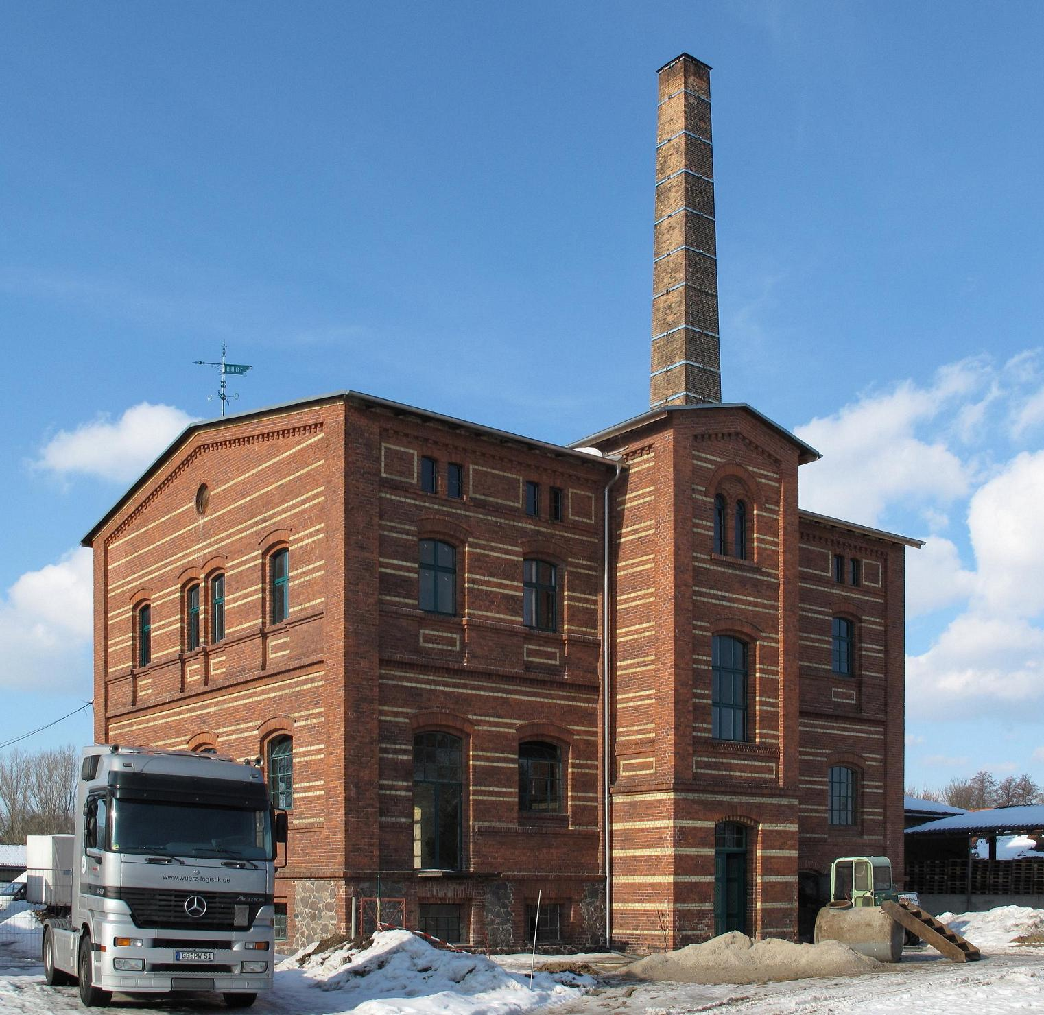 Listed potato distillery, built in 1839, in Genshagen. Genshagen is a part of Ludwigsfelde in the district Teltow-Fläming, state Brandenburg, Germany.